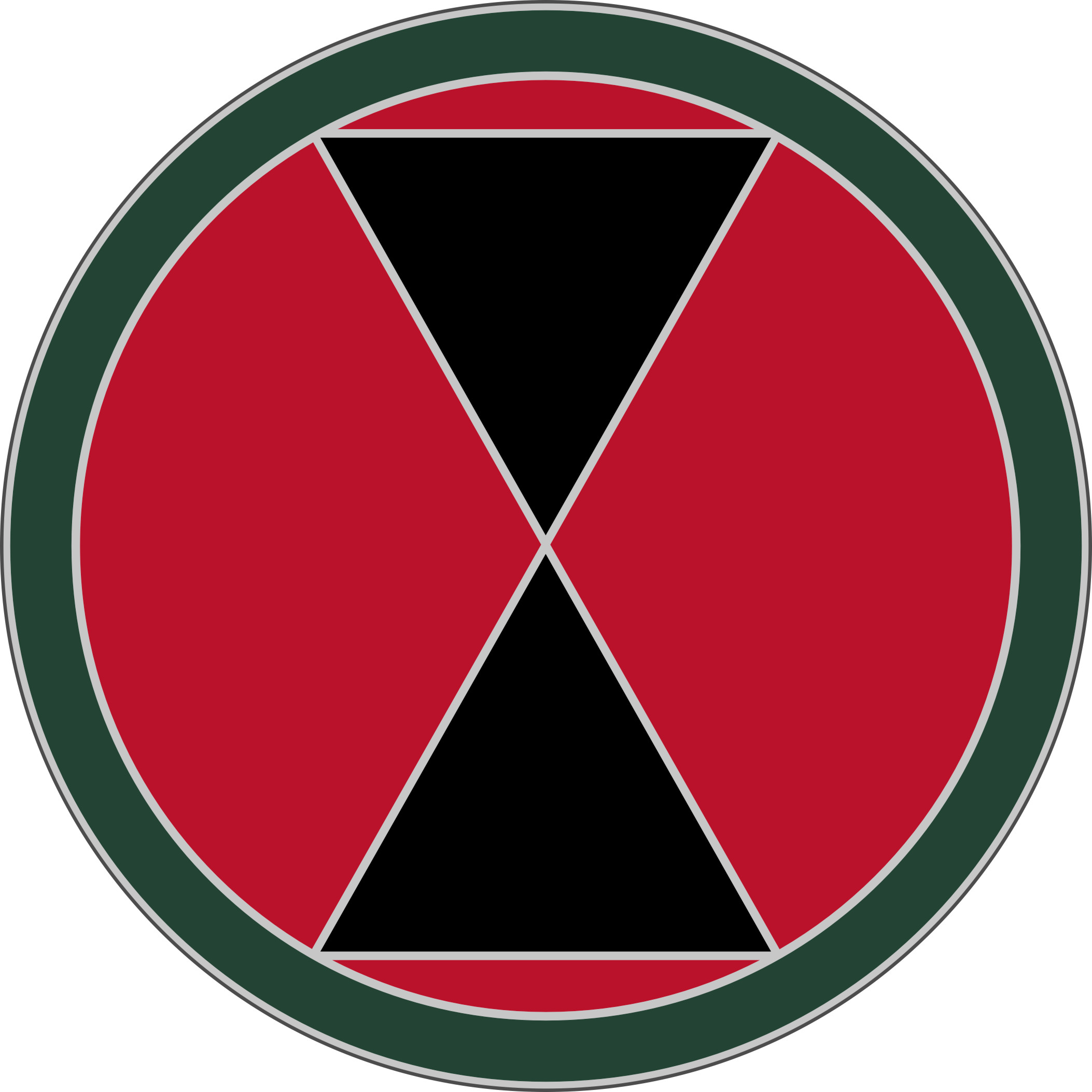 Combat Service Identification Badge of the 7th Infantry Division.